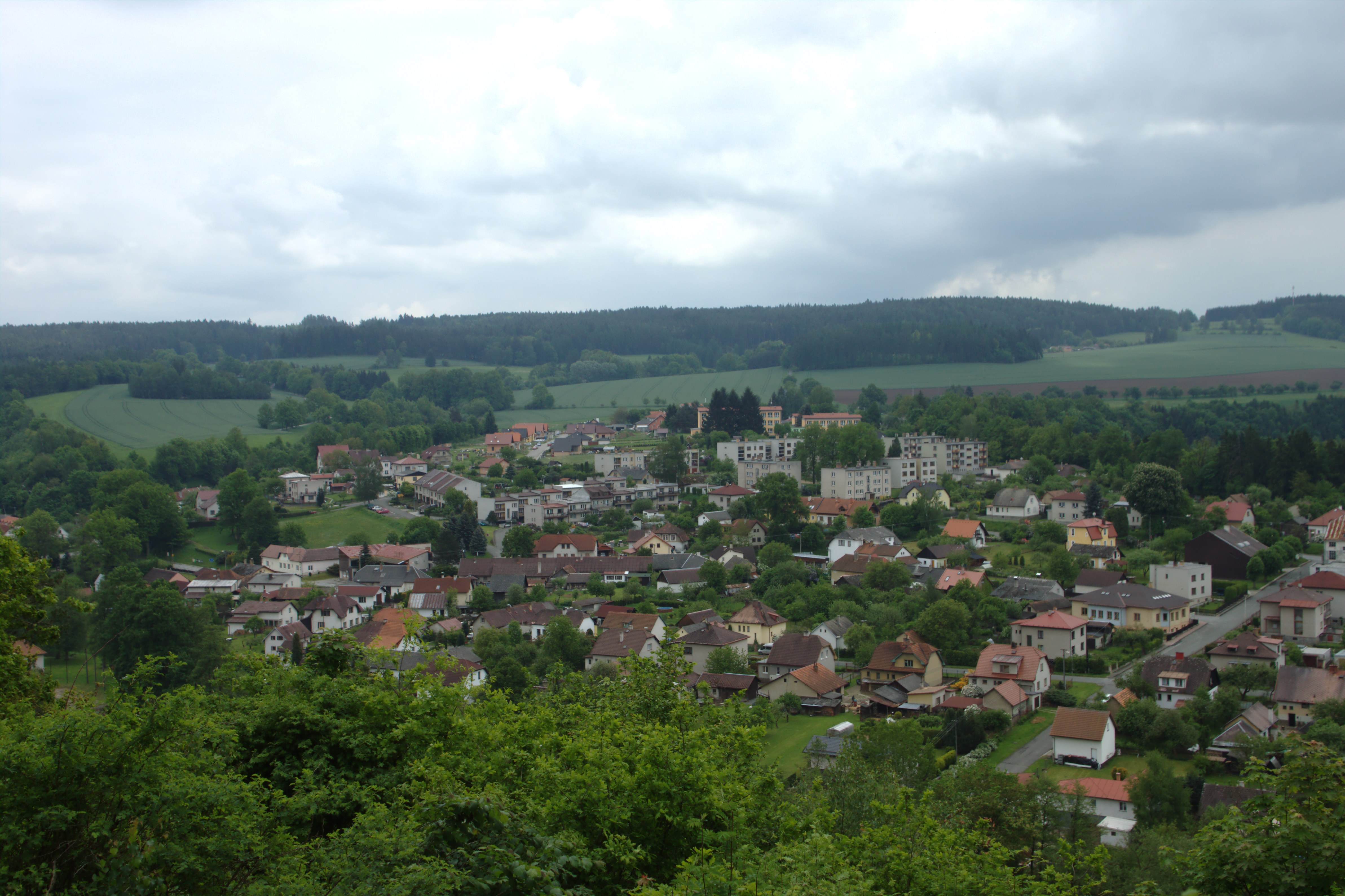 View of the town of Želiv from the rock above the city, Vysočina Region, CZ